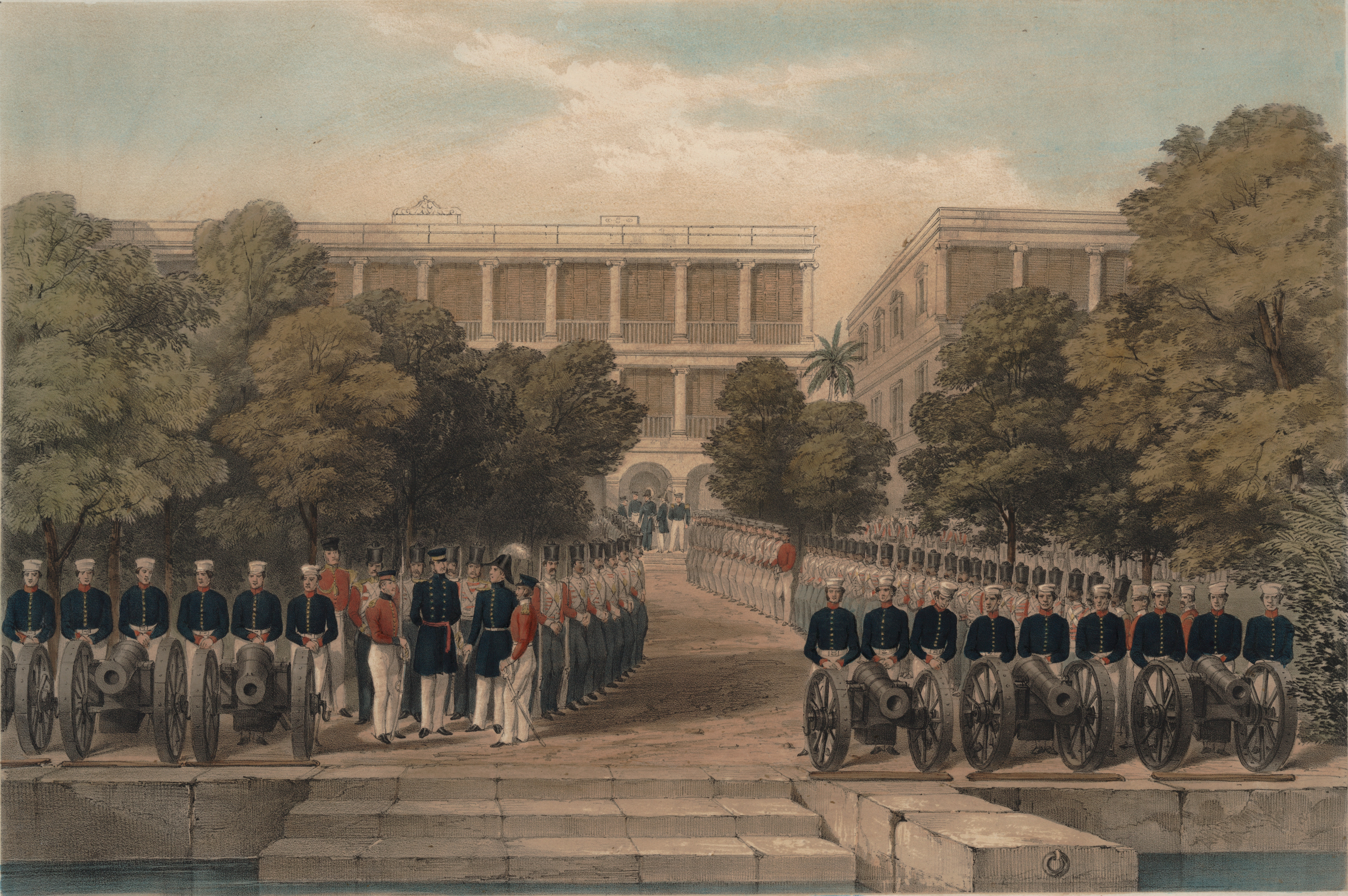 British troops at the British factory in Canton preparing to receive Imperial High Commissioner and Viceroy Keying.